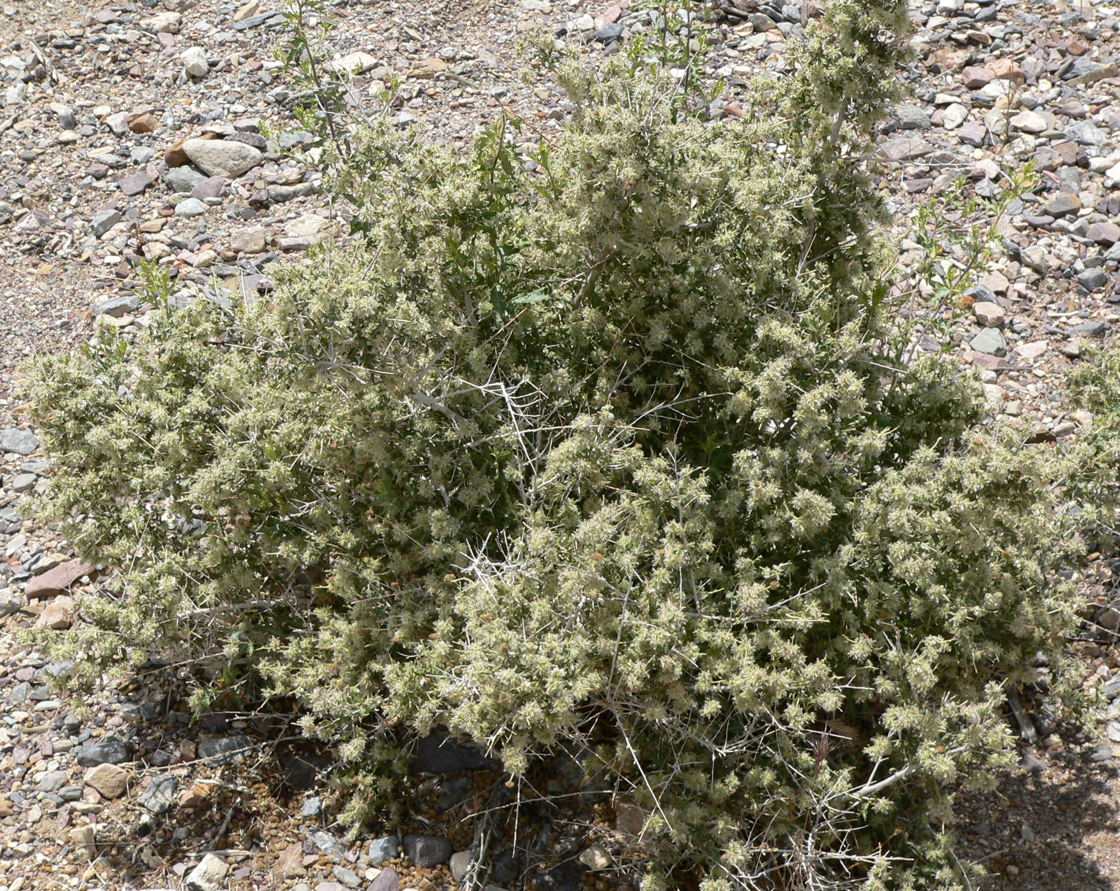 Ambrosia eriocentra near the junction of roads 553 and 592. about 5 km northeast of Mount Stirling, Spring Mountains, southern Nevada (elev. about 1600 m)